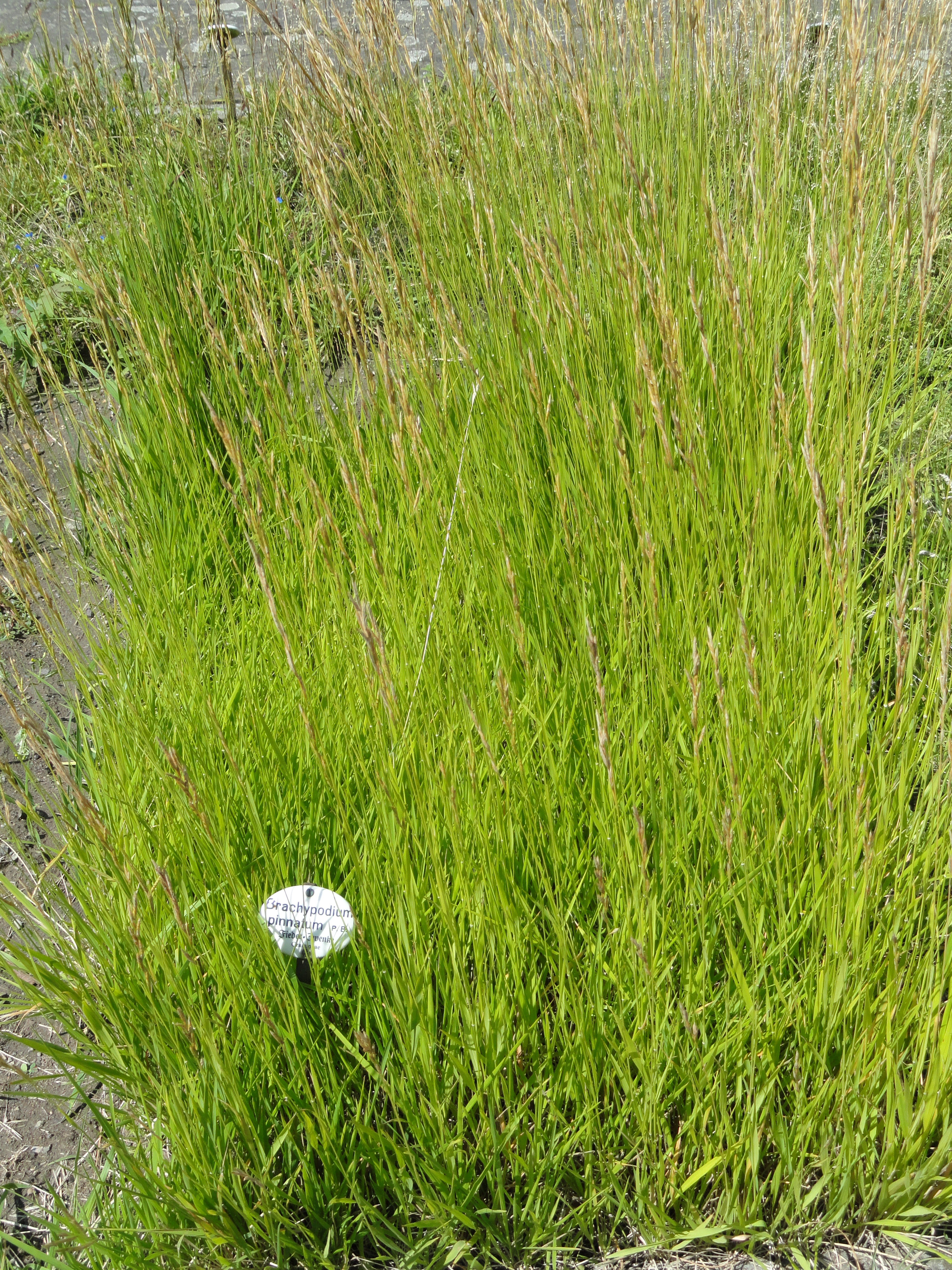 Botanical specimen in the Botanischer Garten, Frankfurt am Main, located at Siesmayerstraße 72, Frankfurt am Main, Germany.